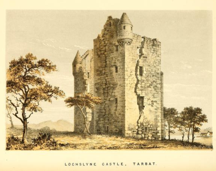 Lochslyn Castle, Easter Ross, Scotland